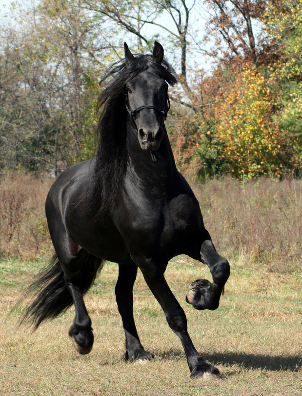 Male Friesian horse